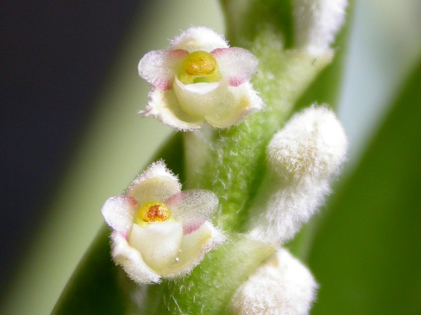 Eria